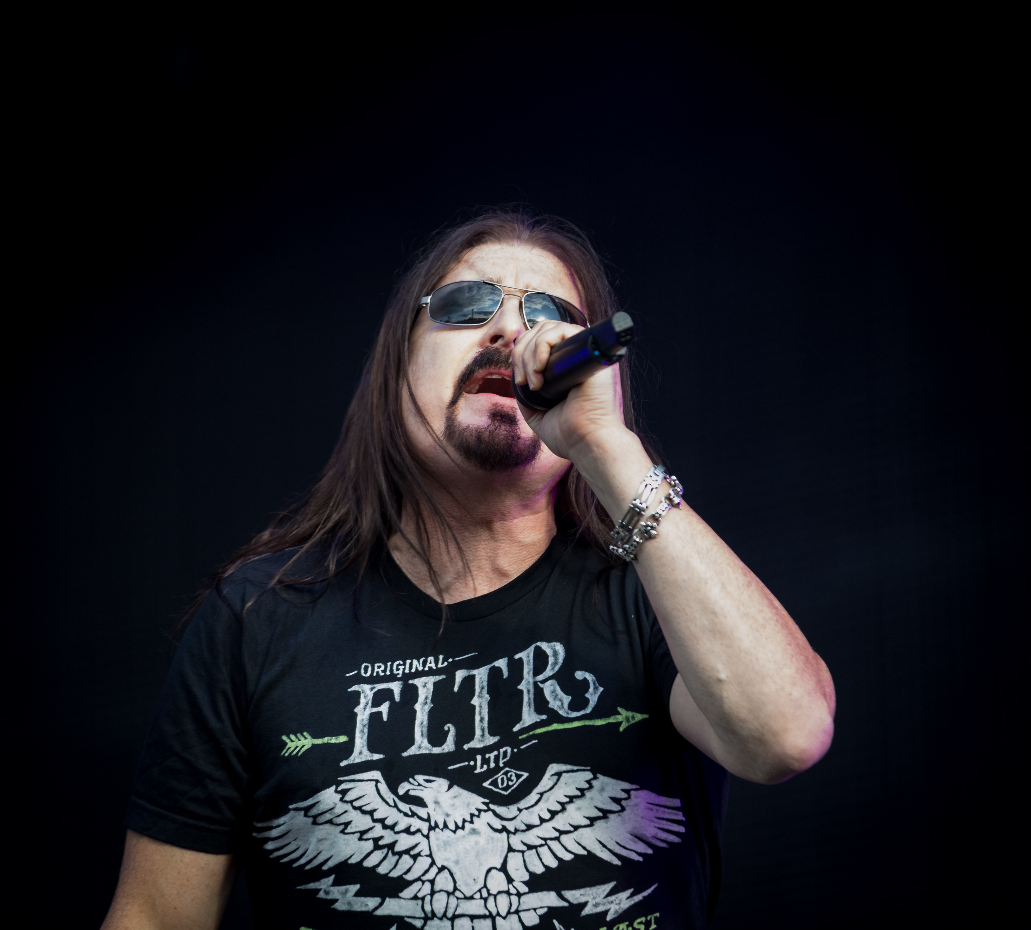 Dreamtheater - Wacken Open Air 2015